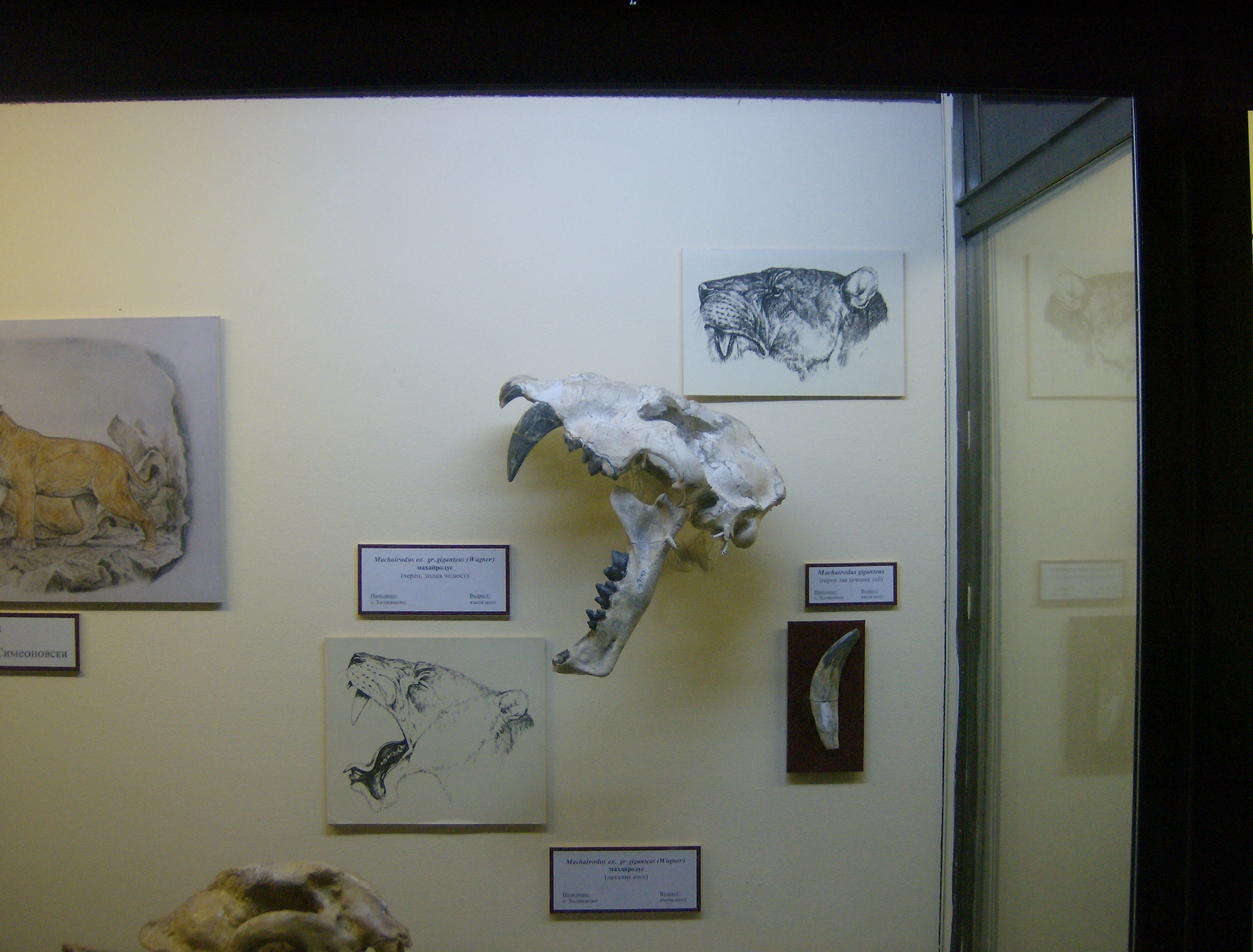 Amphimachairodus giganteus, Asenovgrad Paleonthological Museum